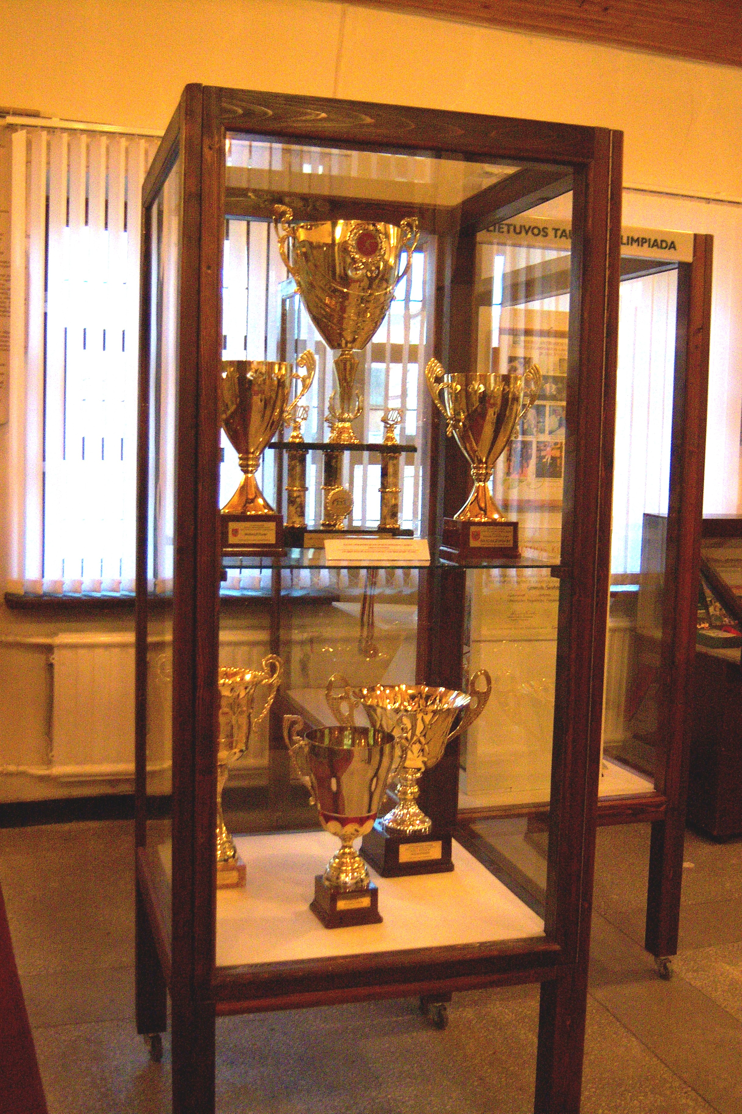 Sports Museum, prizes, Kaunas, Lithuania